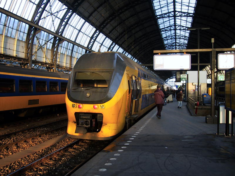 NS VIRM train